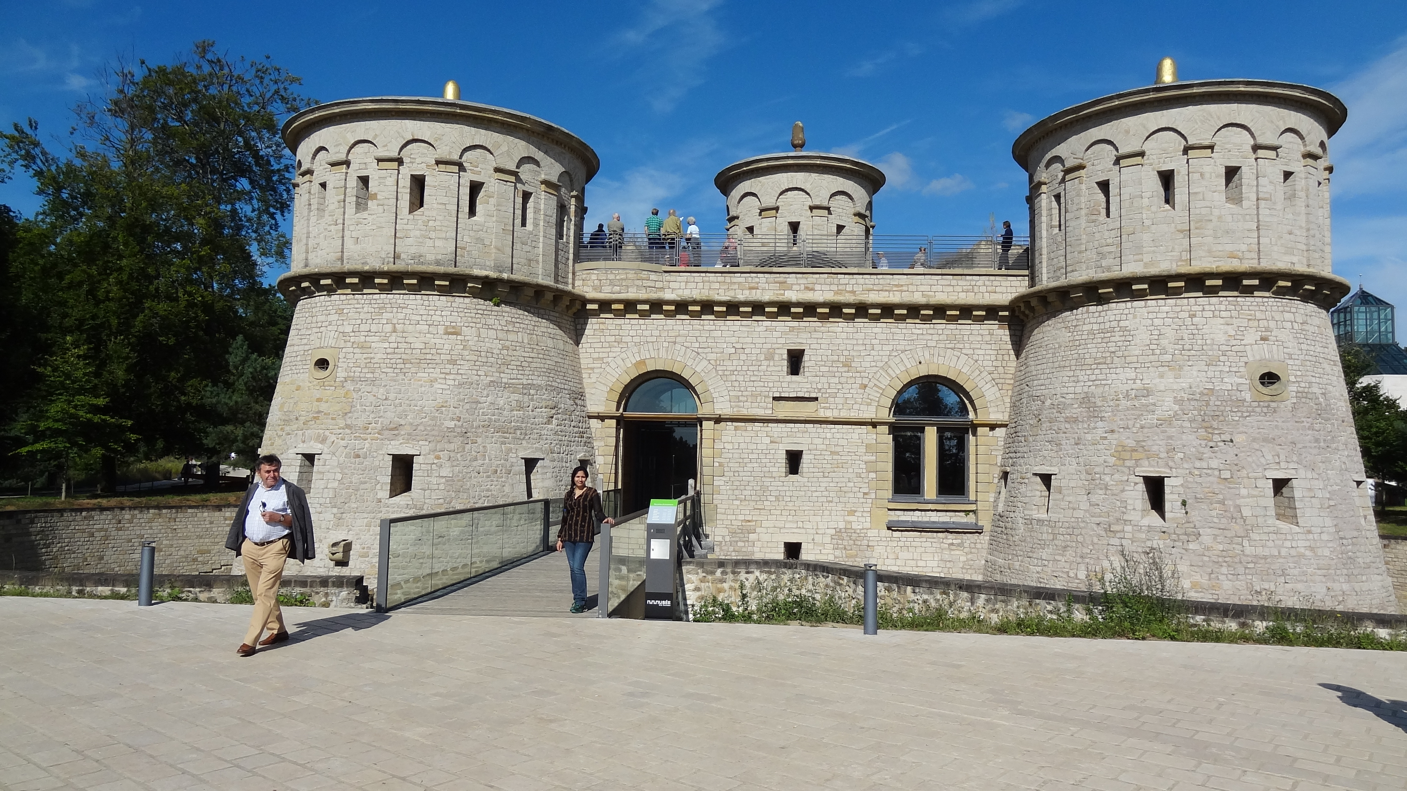 This is my own work.